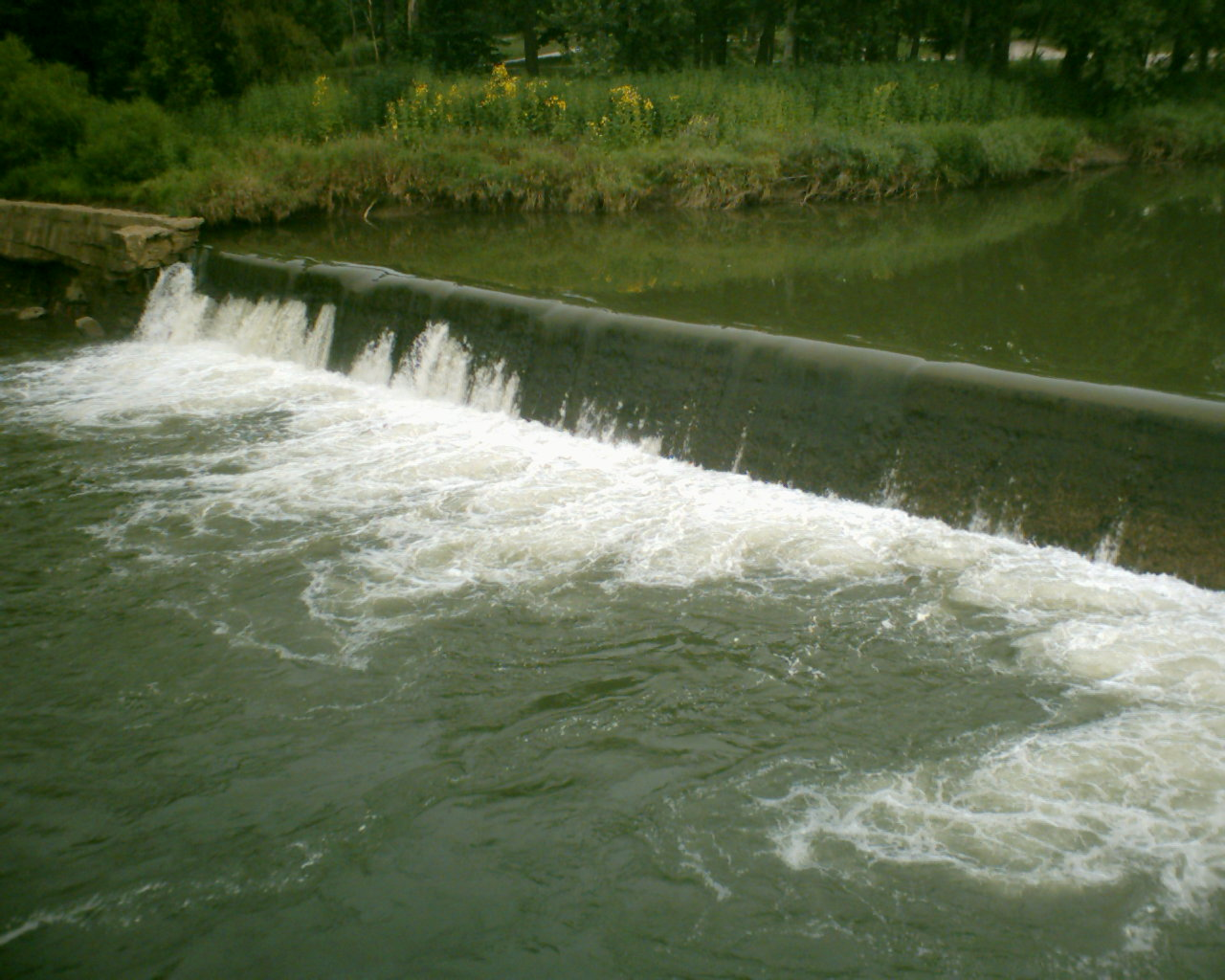 Caplinger Mills Historic District Caplinger Mills Dam